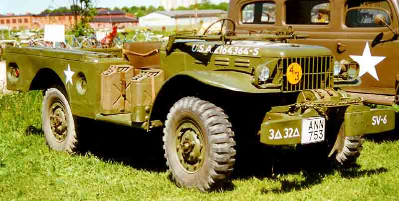 Dodge WC-52 Weapon Carrier 1942